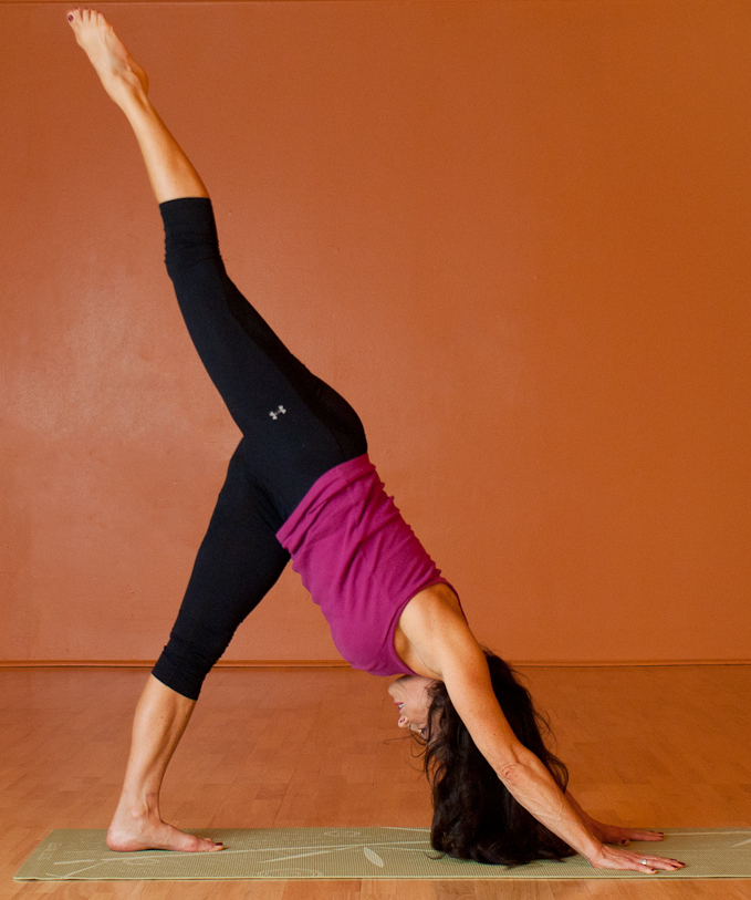 Female performing "Urdhva Prasarita Ekapadasana" yoga pose.